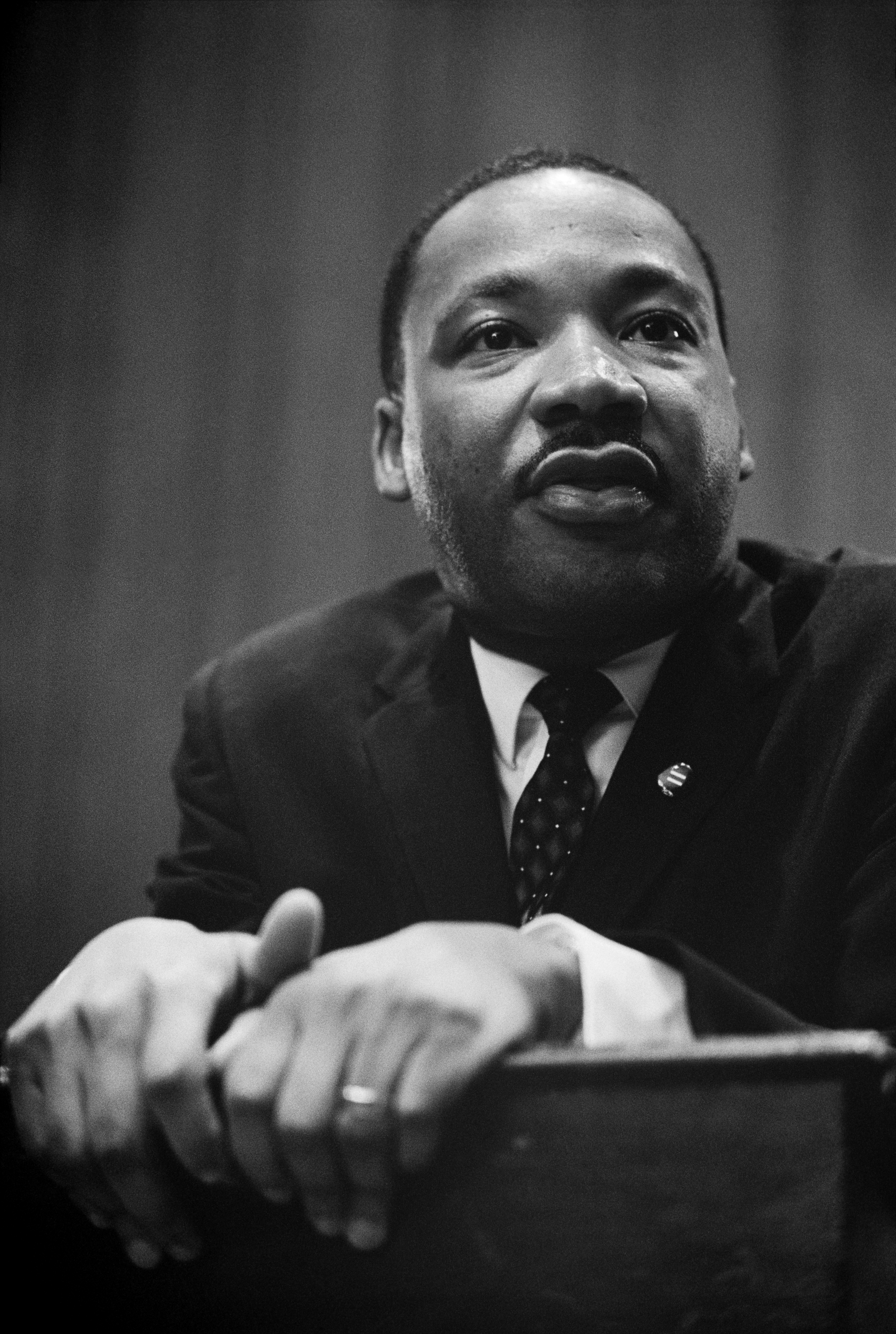 Dr. Martin Luther King at a press conference.